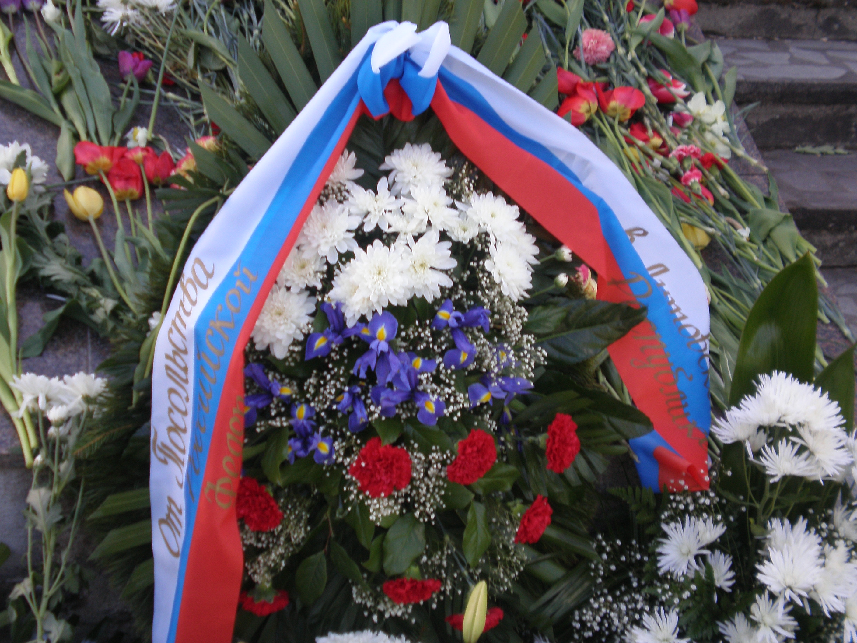 Wreath at Jonava soldiers' cemetery